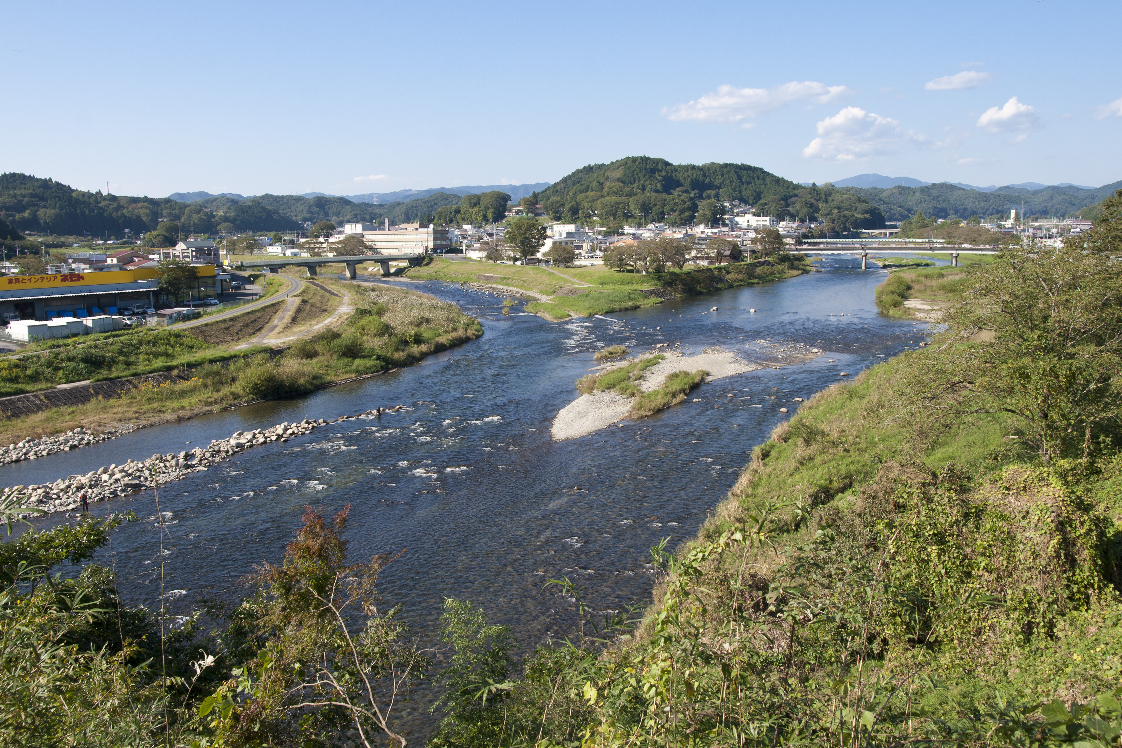 Kuji river, Daigo Town, Ibaraki Prefecture, Japan.